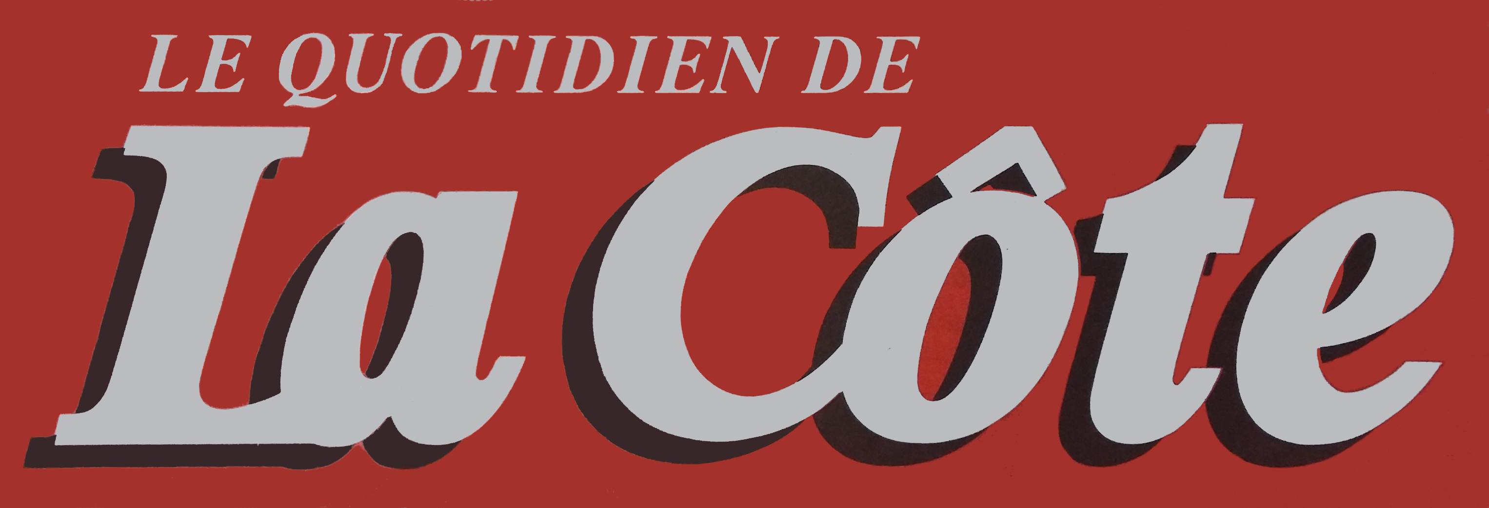 Logo of the Swiss newspaper La Côte